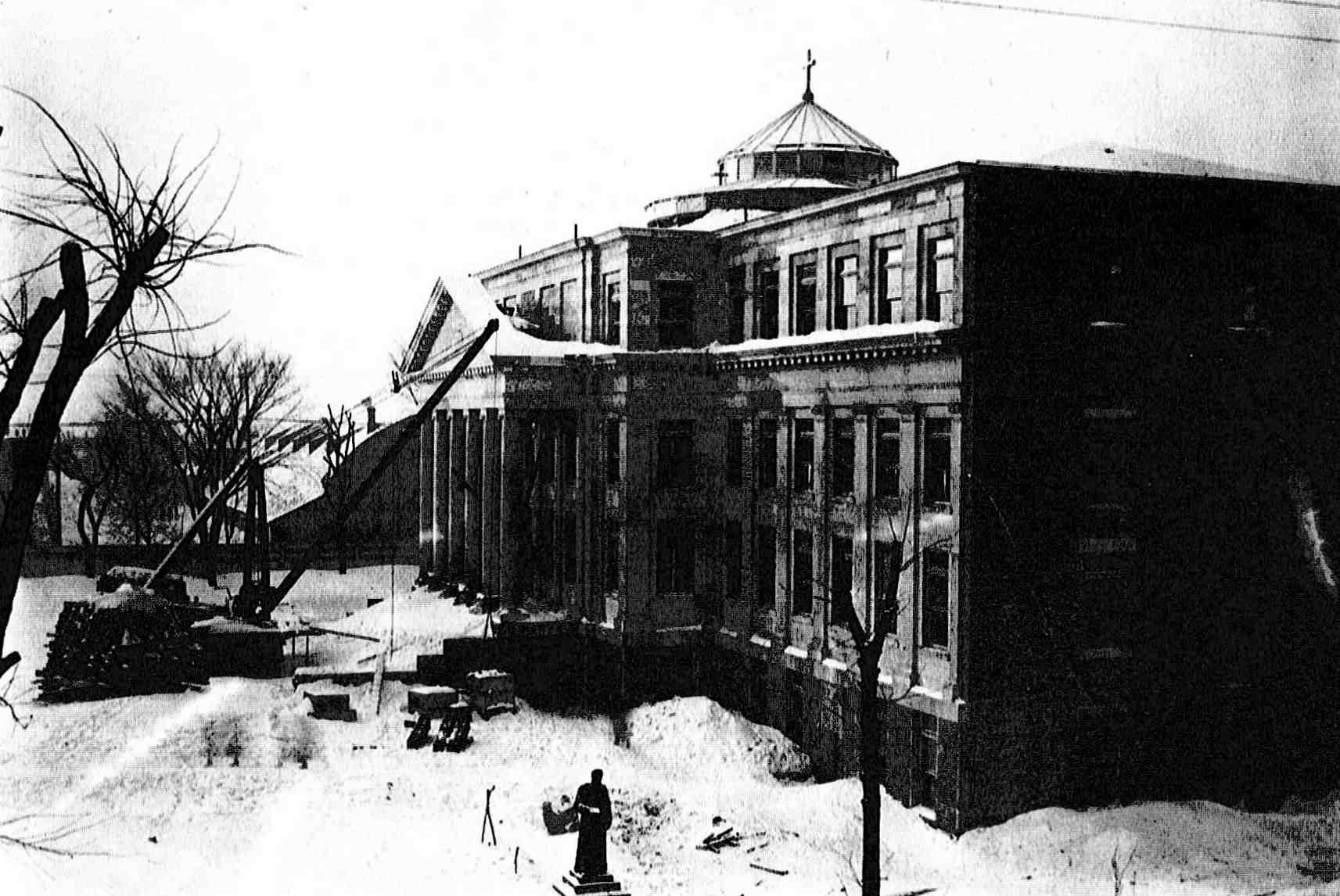 Photo of Tabaret Hall and Rideau Rink, Ottawa, Canada